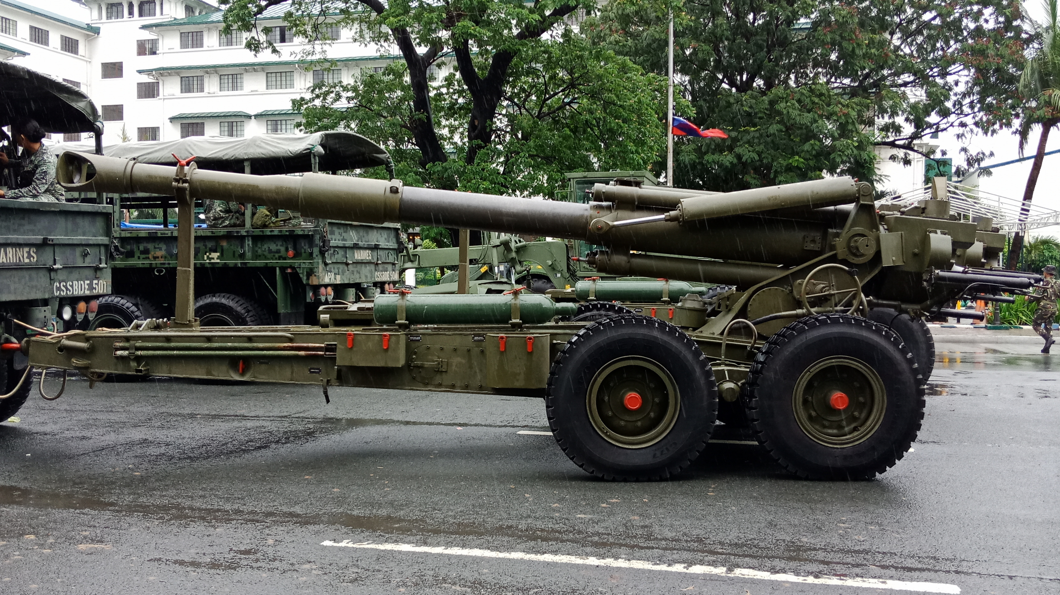 A side view of a Soltam M-71 Howitzer of the Philippine Marine Corps (PMC). Photo taken during the 2018 Kalayaan Parade in Luneta.